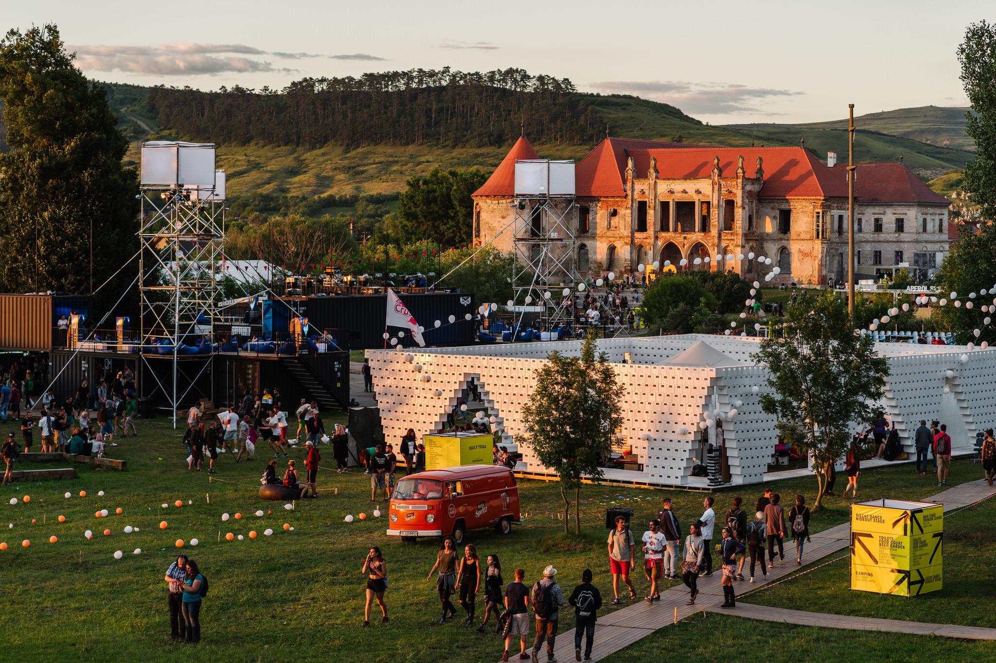 Electric Castle festival, Romania, 2017. General view